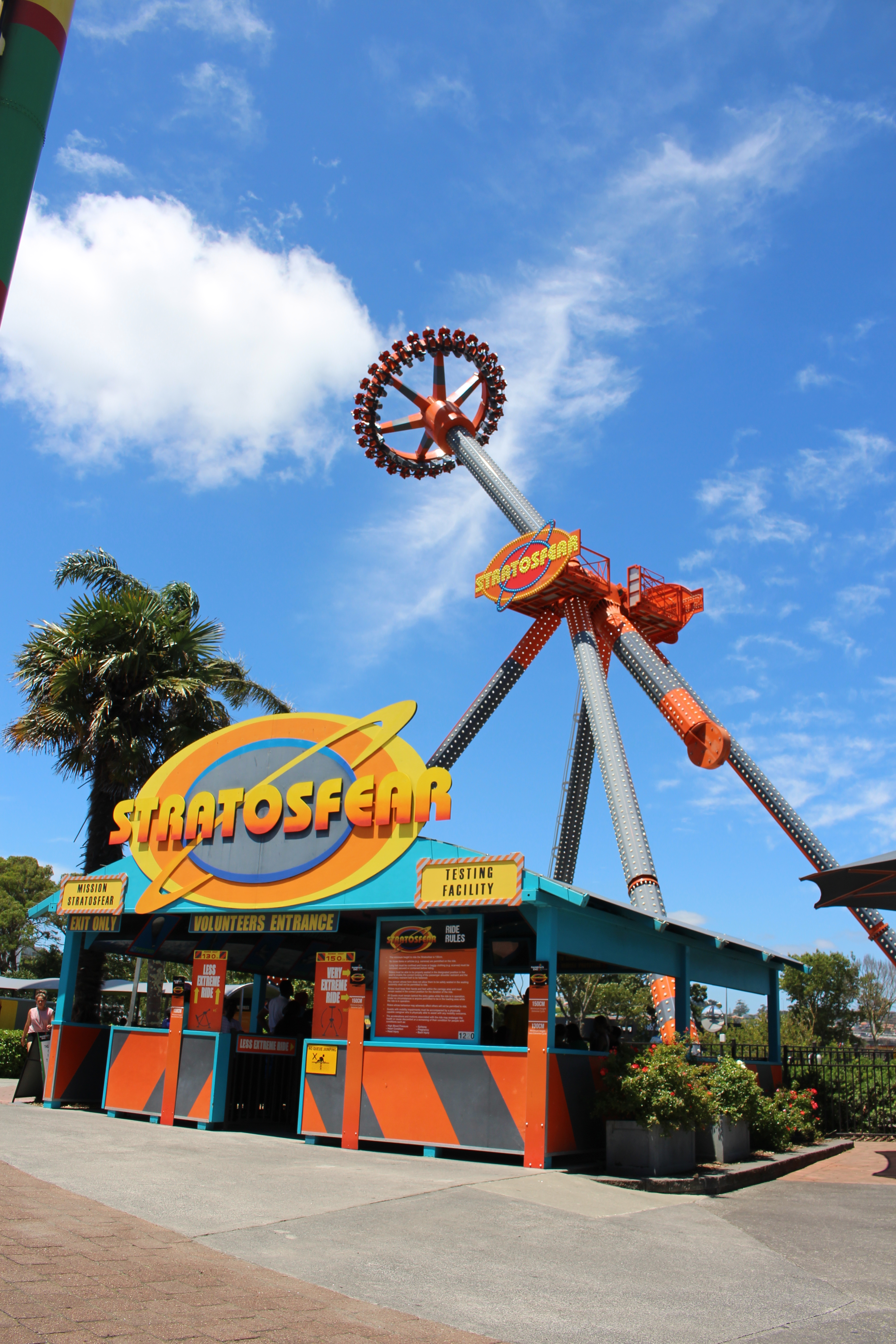 Rainbow's End Stratosfear - Extreme Cycle (360°)